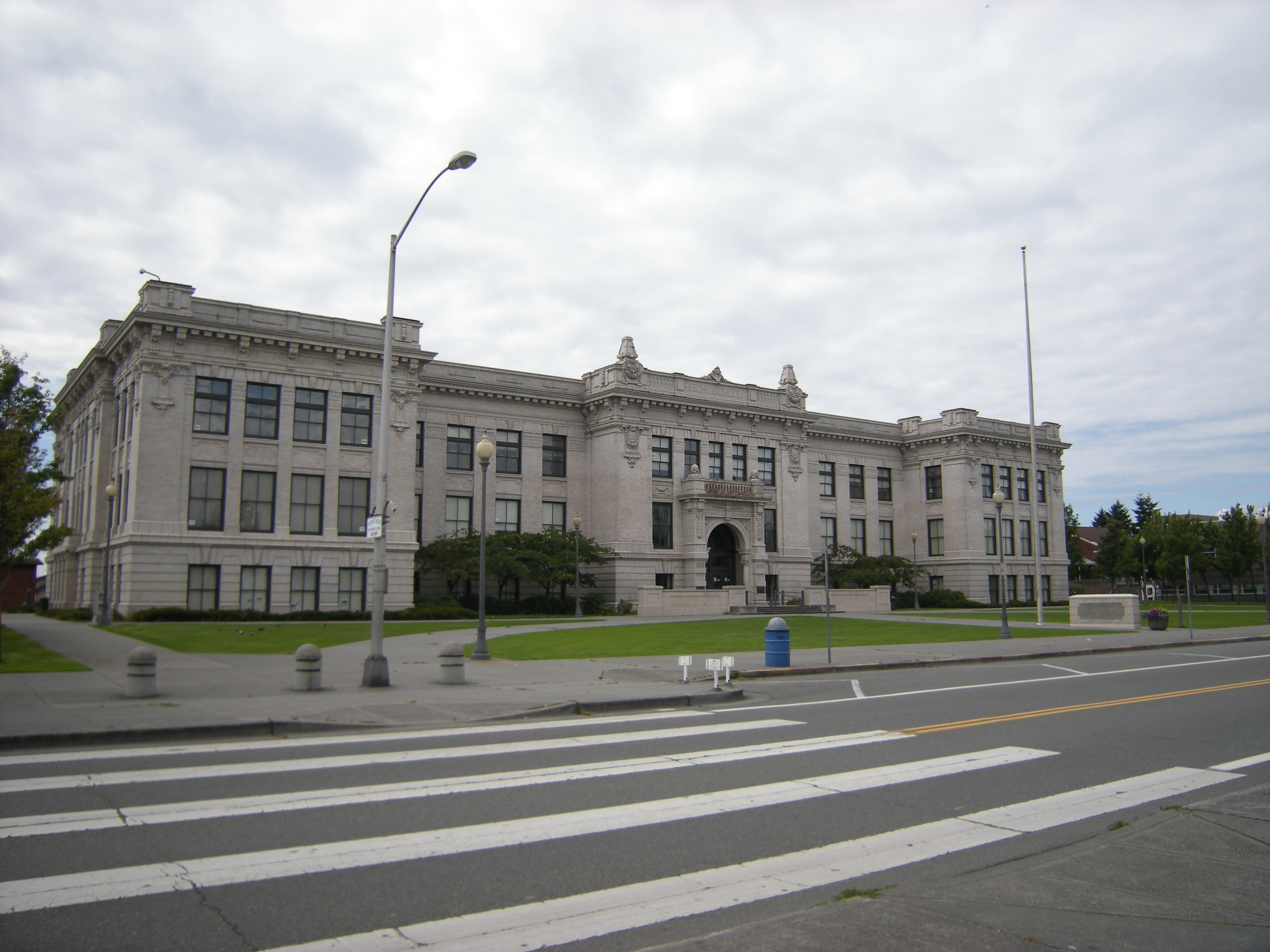 Everett High School, 2400 Colby Avenue, Everett, Washington. The building is on the National Register of Historic Places.